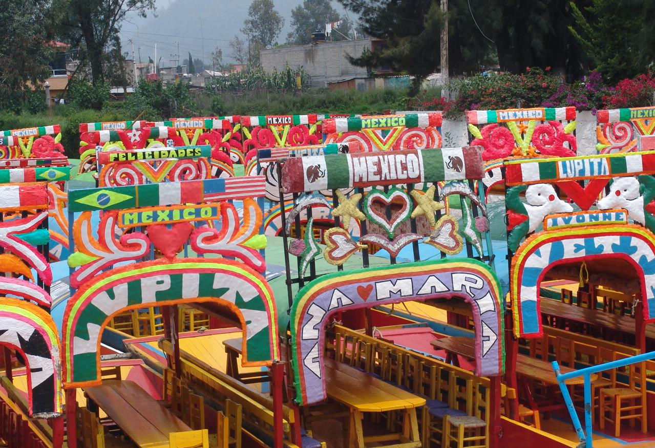 Typical boats in Xochimilco, México D.F. Mexico. Whiich are surrounded by flowers and all different types of colors.